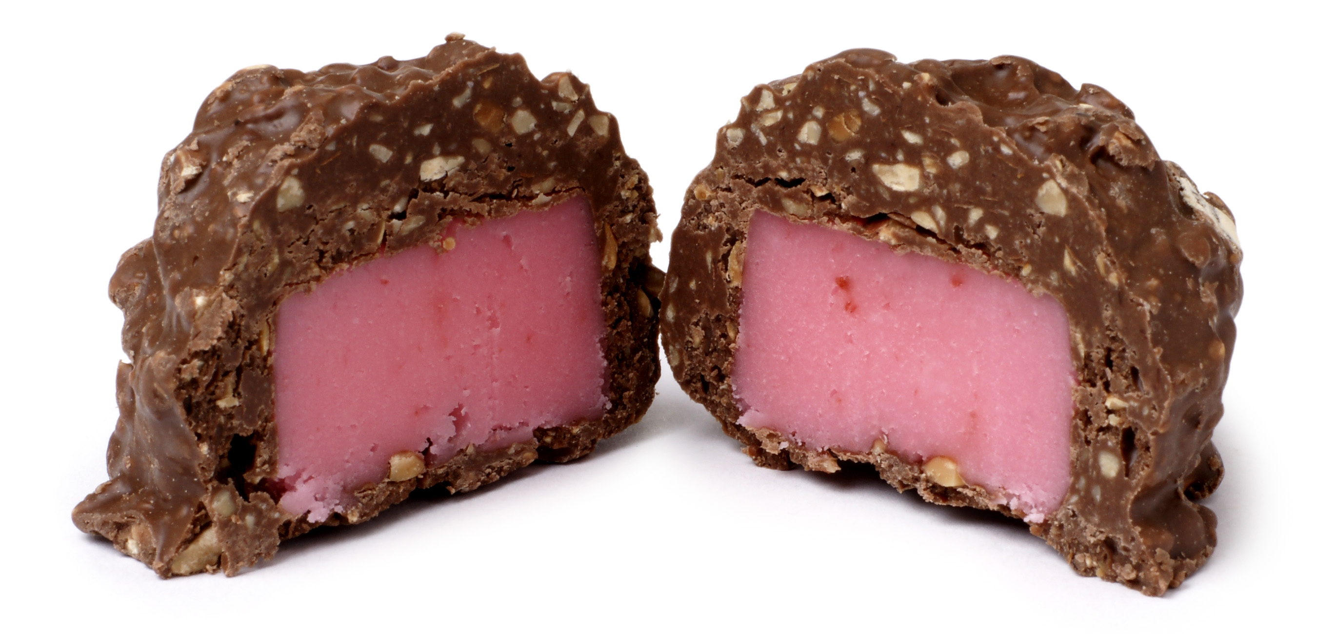 A Cherry Mash candy split in half. Cherry Mashes are made by Chase Candy out of St. Joseph, Missouri.